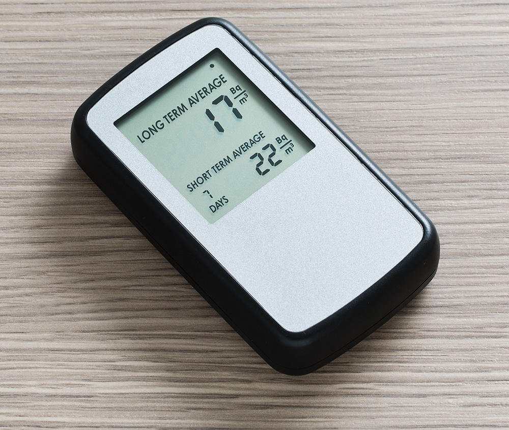 A digital radon detector on a table